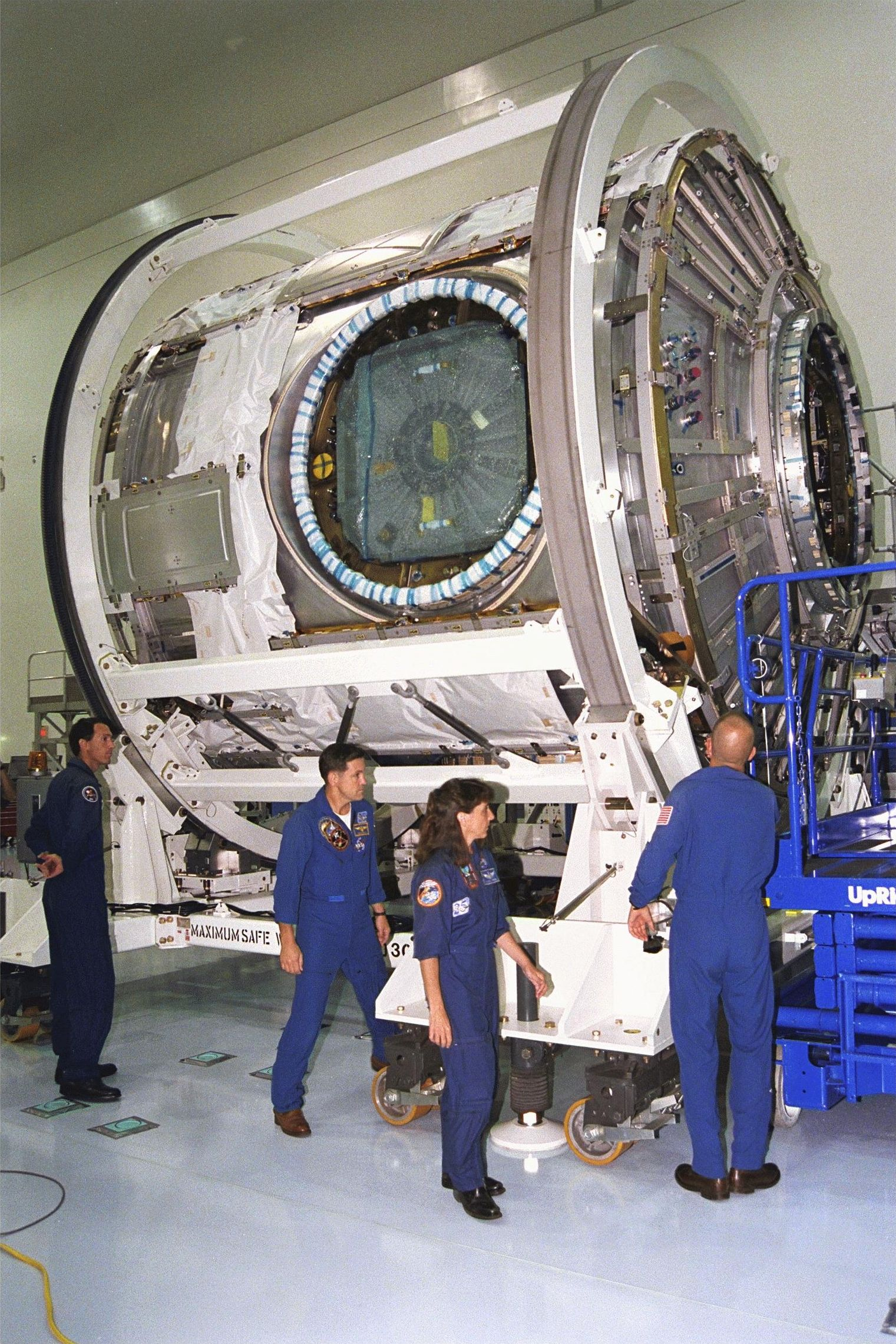 Node 1 and members of STS-88 crew at Kennedy Space Center.